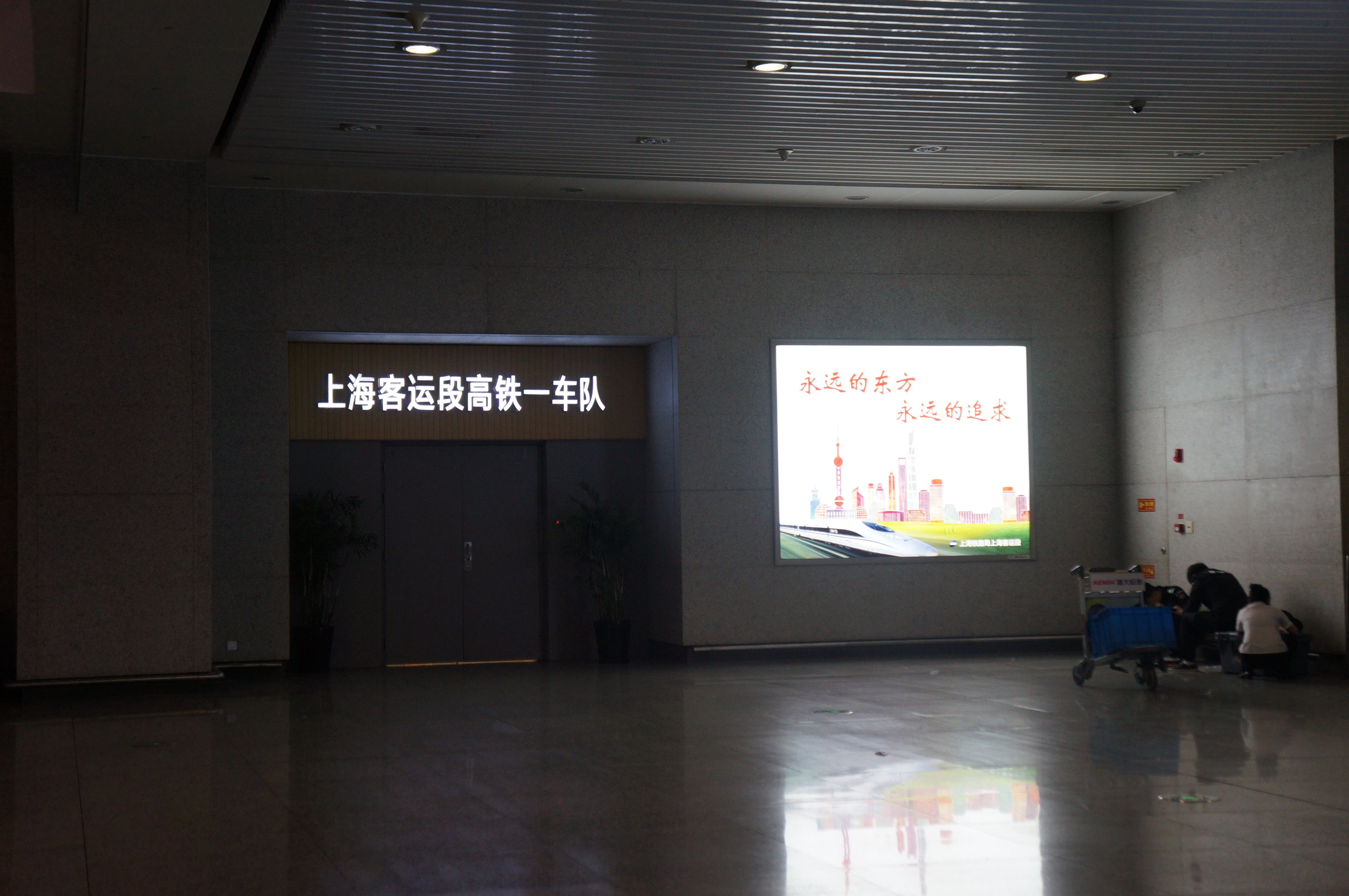 201610 Entrance for office of High-Speed-Rail service team 1 of SK, located at Shanghai Hongqiao Railway Station